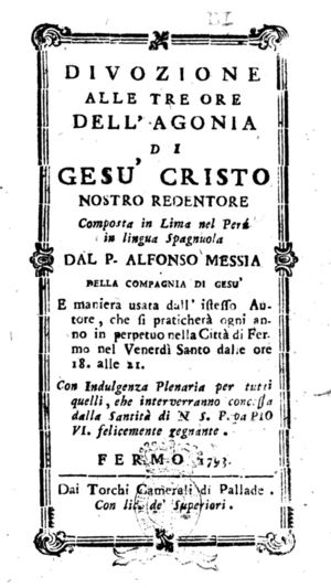 Front page of the Divotione alla tre ore, 1793, facsimile